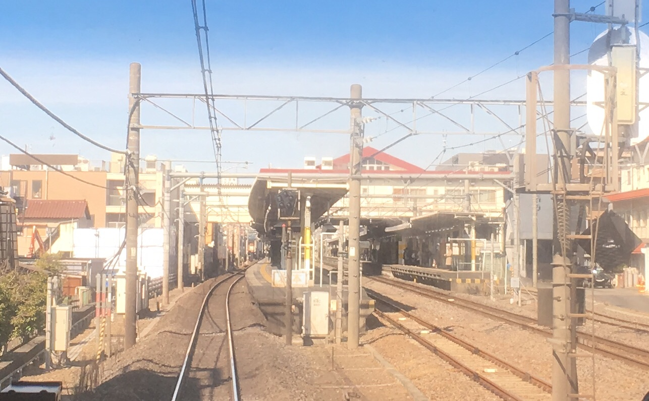 北本駅のホーム (Kitamoto Station platforms)